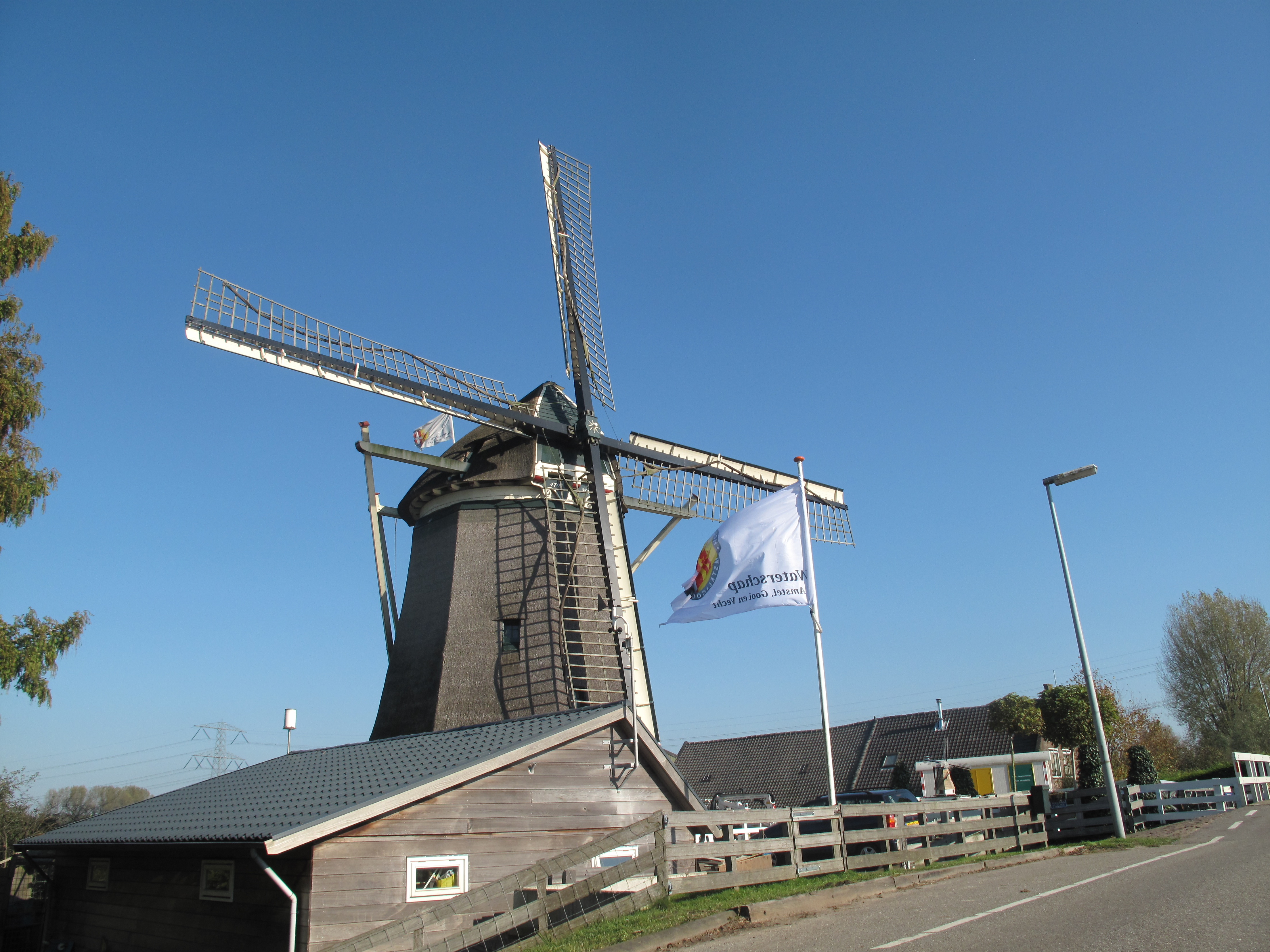 Amsterdam Zuidoost, windmill